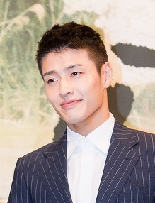 Kang Ha-neul at "Moon Lovers - Scarlet Heart Ryeo" press conference, 24 August 2016